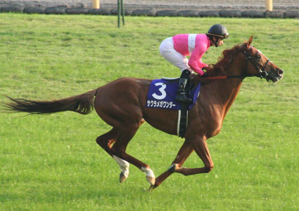 Sakura Megawonder (Tokyo Racecourse)